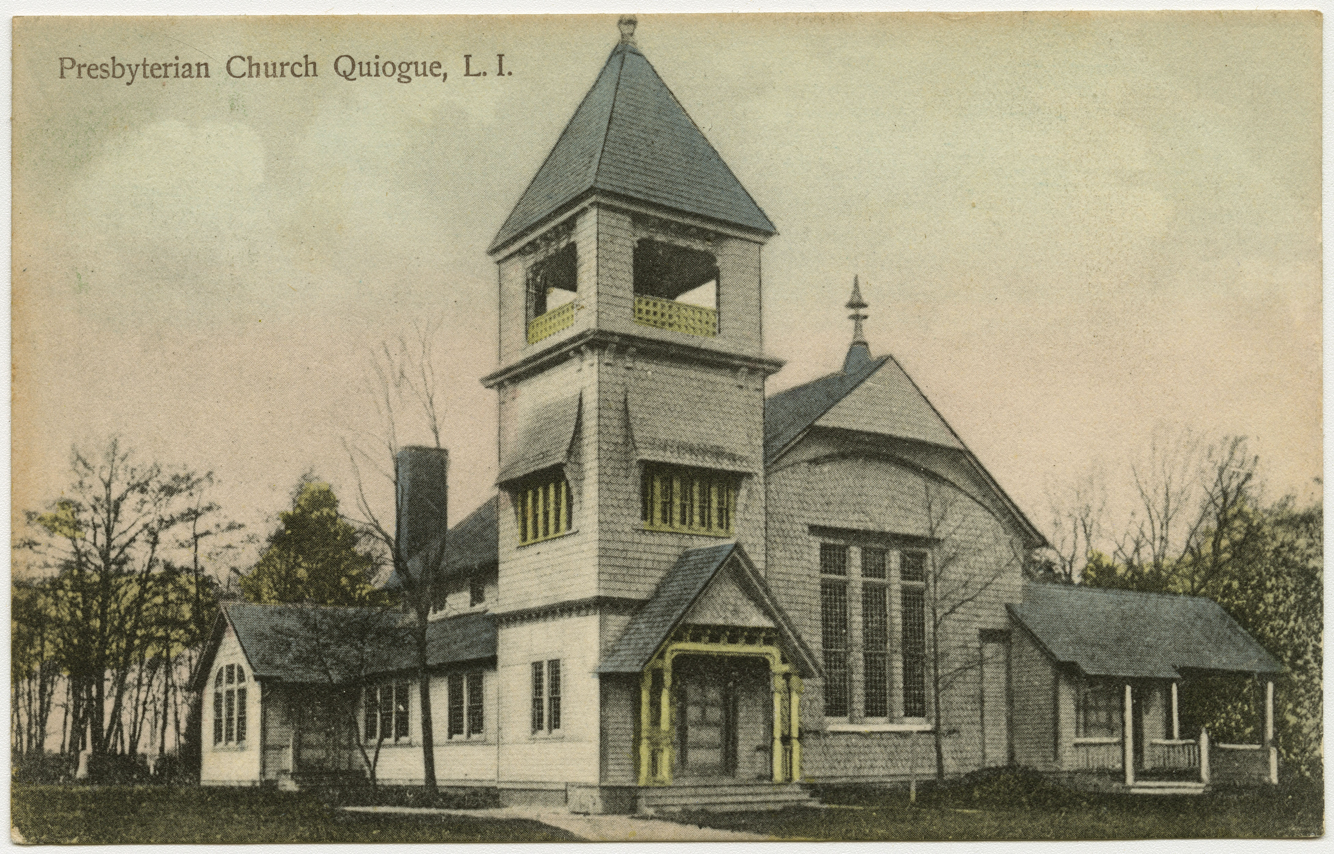 Presbyterian Church in Quiogue, New York (on Long Island) from a pre-1923 postcard From RG 428, Postcard Collection, Presbyterian Historical Society, Philadelphia, Pennsylvania.